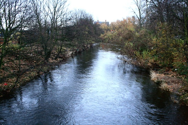 The River Derwent Looking downstream from the footbridge next to the Derby Evening Telegraph Building.